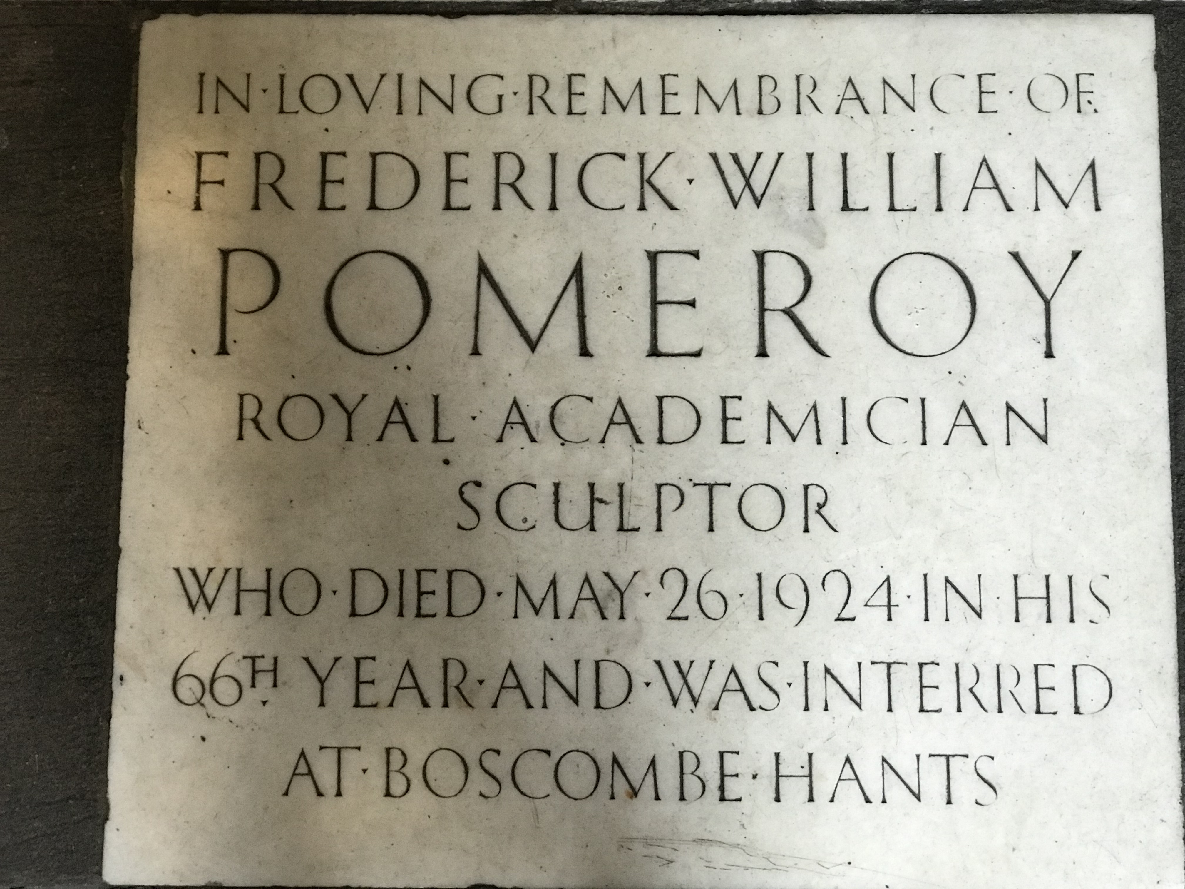 A memorial to F. W. Pomeroy in St James's Church, Piccadilly.